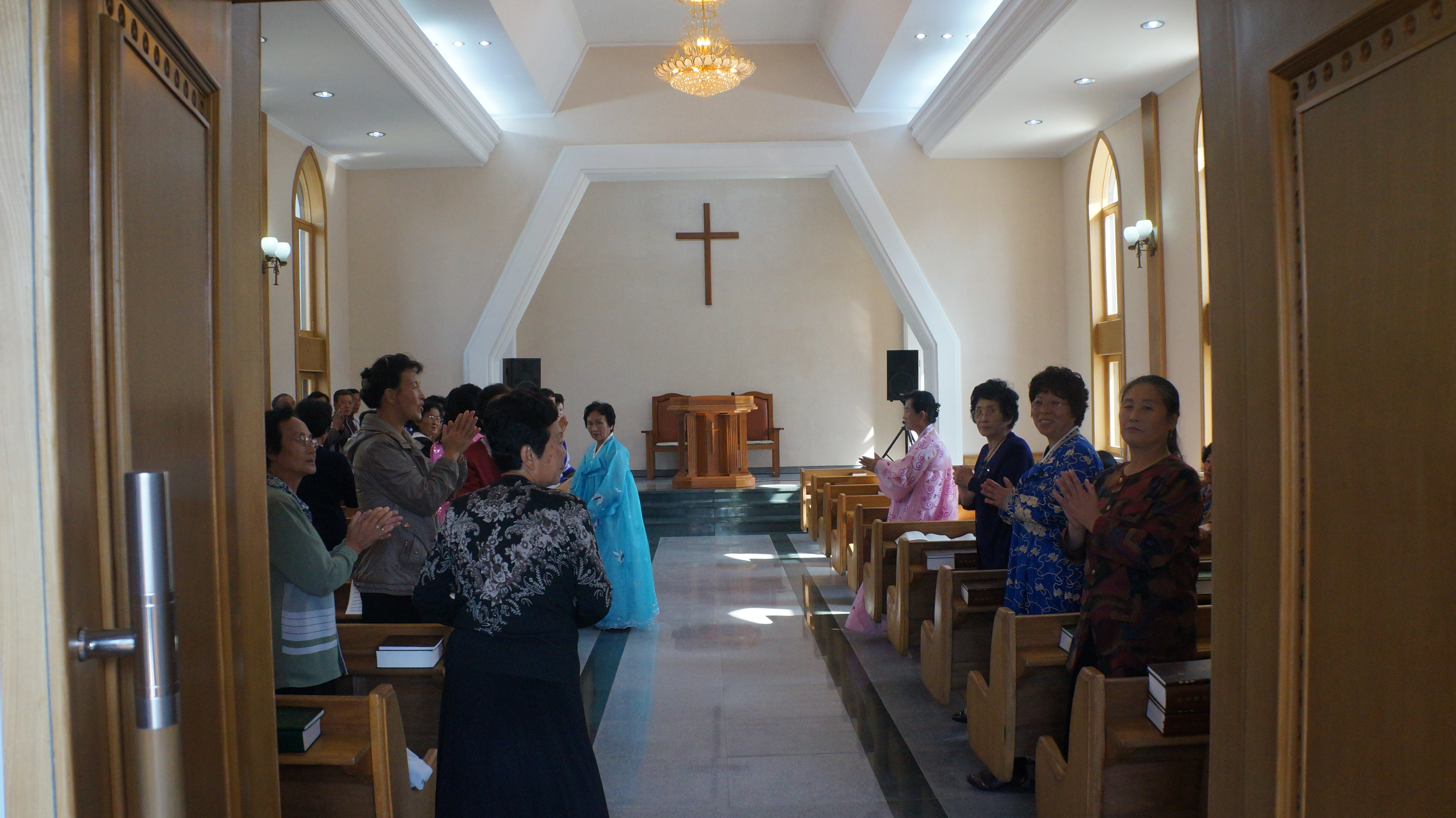 North Korea DPRK